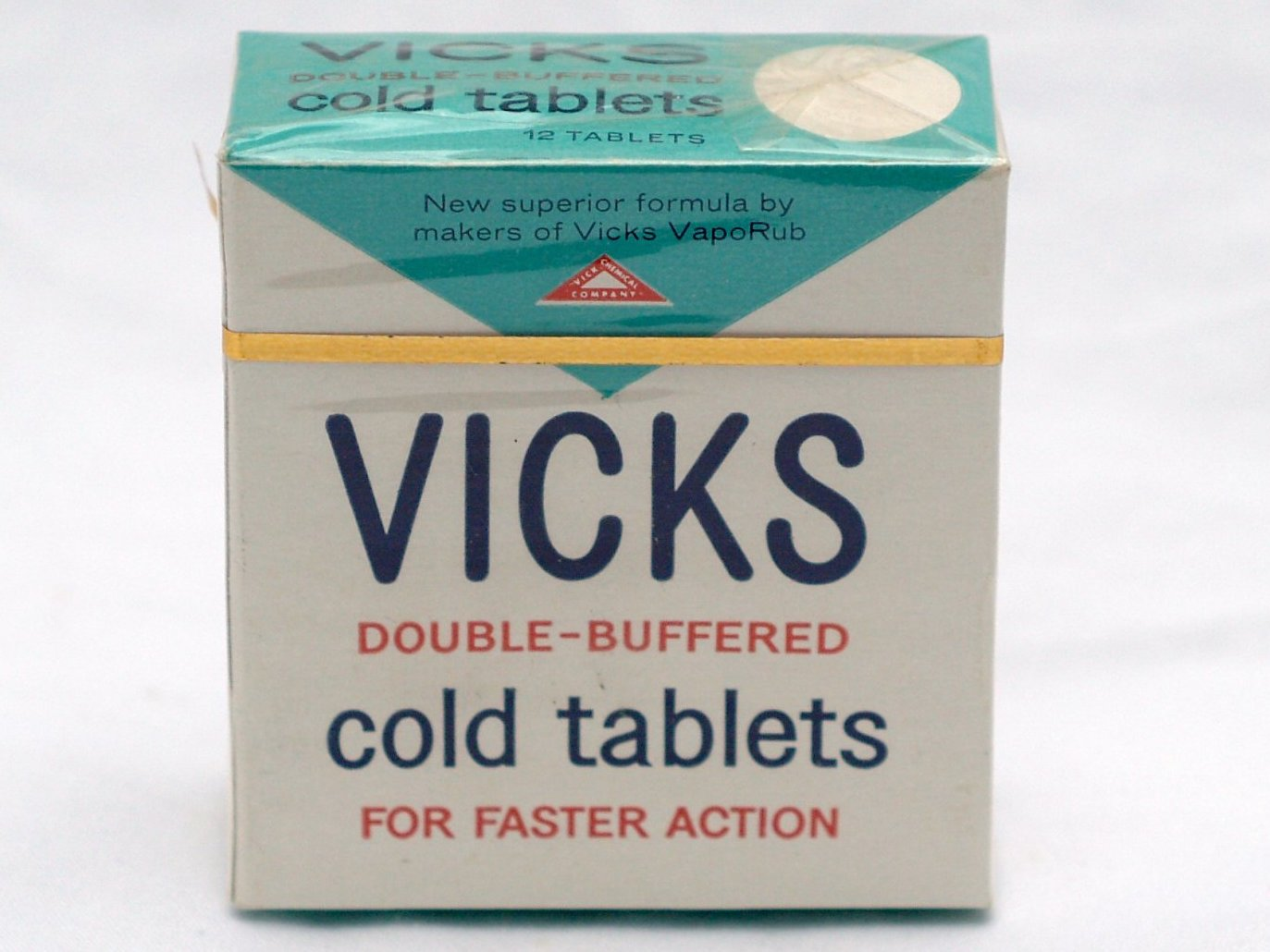 "Vicks Double-Buffered Cold Tablets: For fast symptomatic relief of colds, congested sinus areas, simple headache and sinus pain, hay fever, cold-like symptoms of grippe and influenza." "ACTIVE INGREDIENTS: Salicylamide, Phenacetin 2 1/2 grs., Pyrilamine Maleate, Caffeine, Ephedrine Sulphate, Magnesium Hydroxide, Aluminum Hydroxide Complex (U.S. Pat. 2,446,981)."